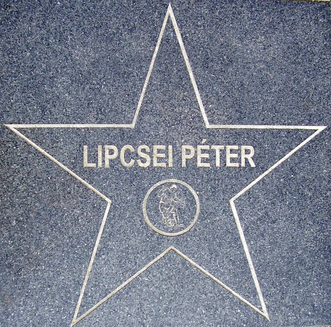 Péter Lipcsei's star in Kazincbarcika, Hungary.